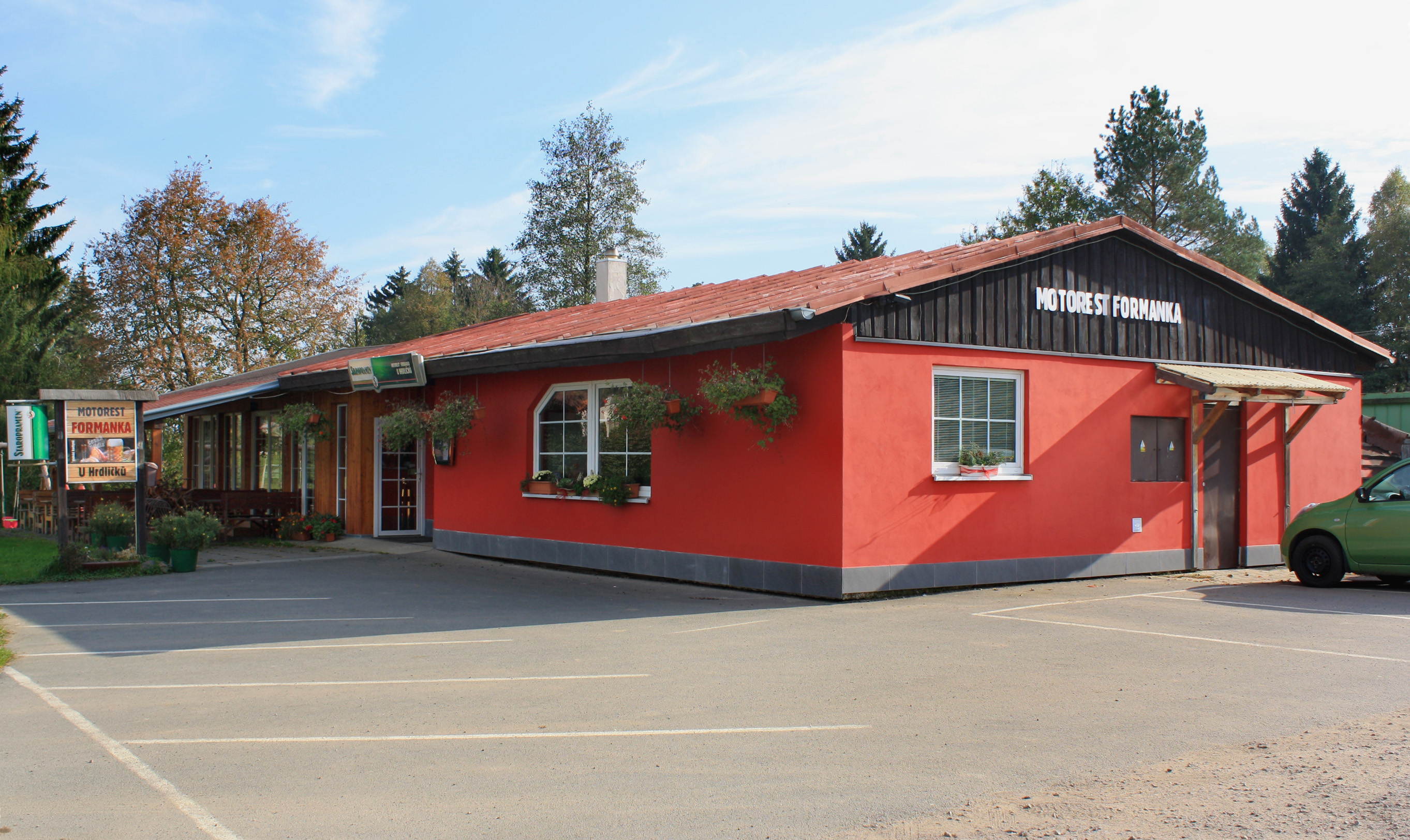 Restaurant in Horní Libchavy, part of Libchavy village, Czech Republic